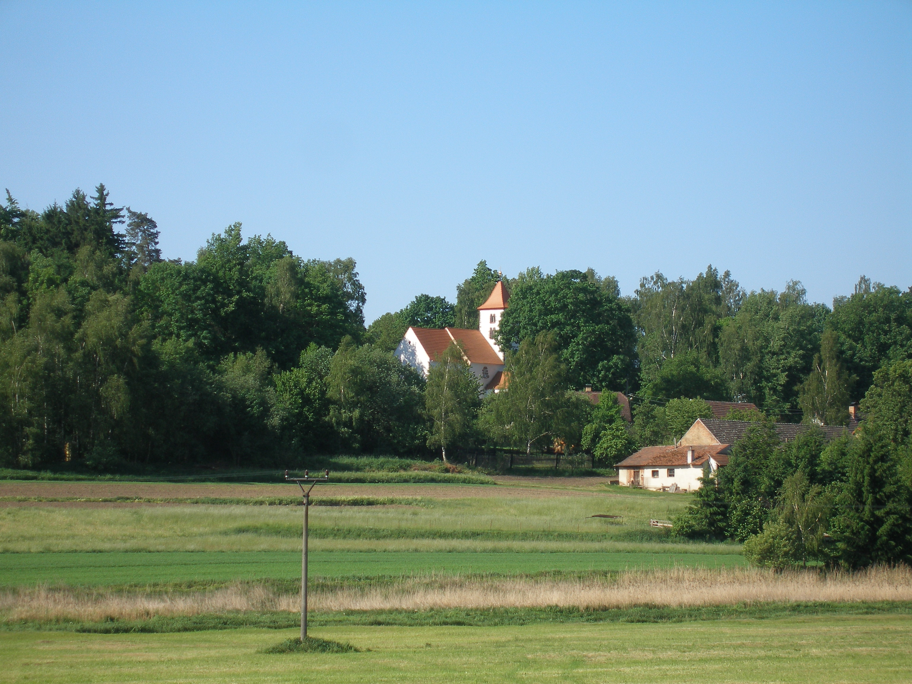 The north-western view of the Saint Ursula church in Újezdec